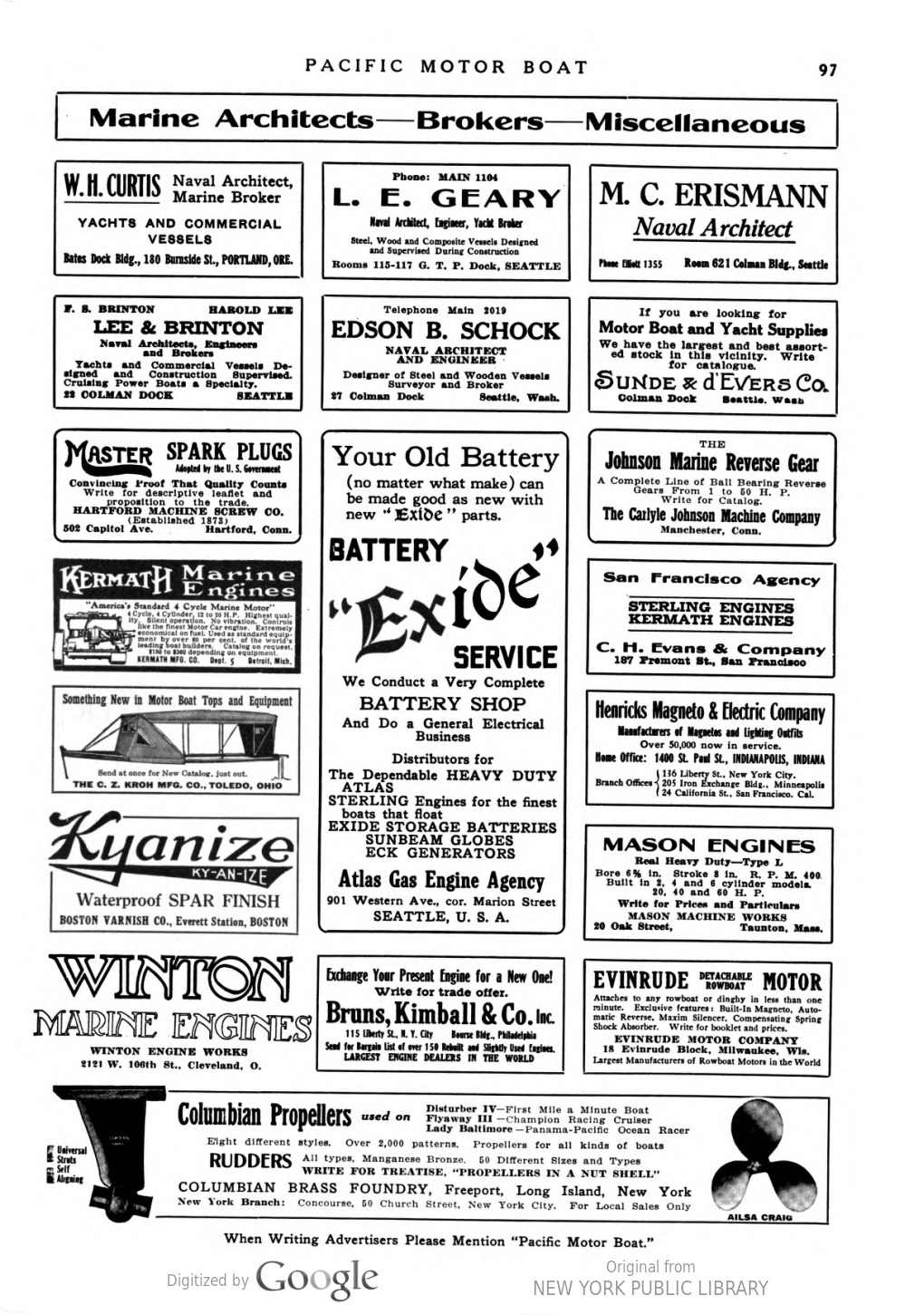 Advertisements - Marine Architects - Brokers - Misc.